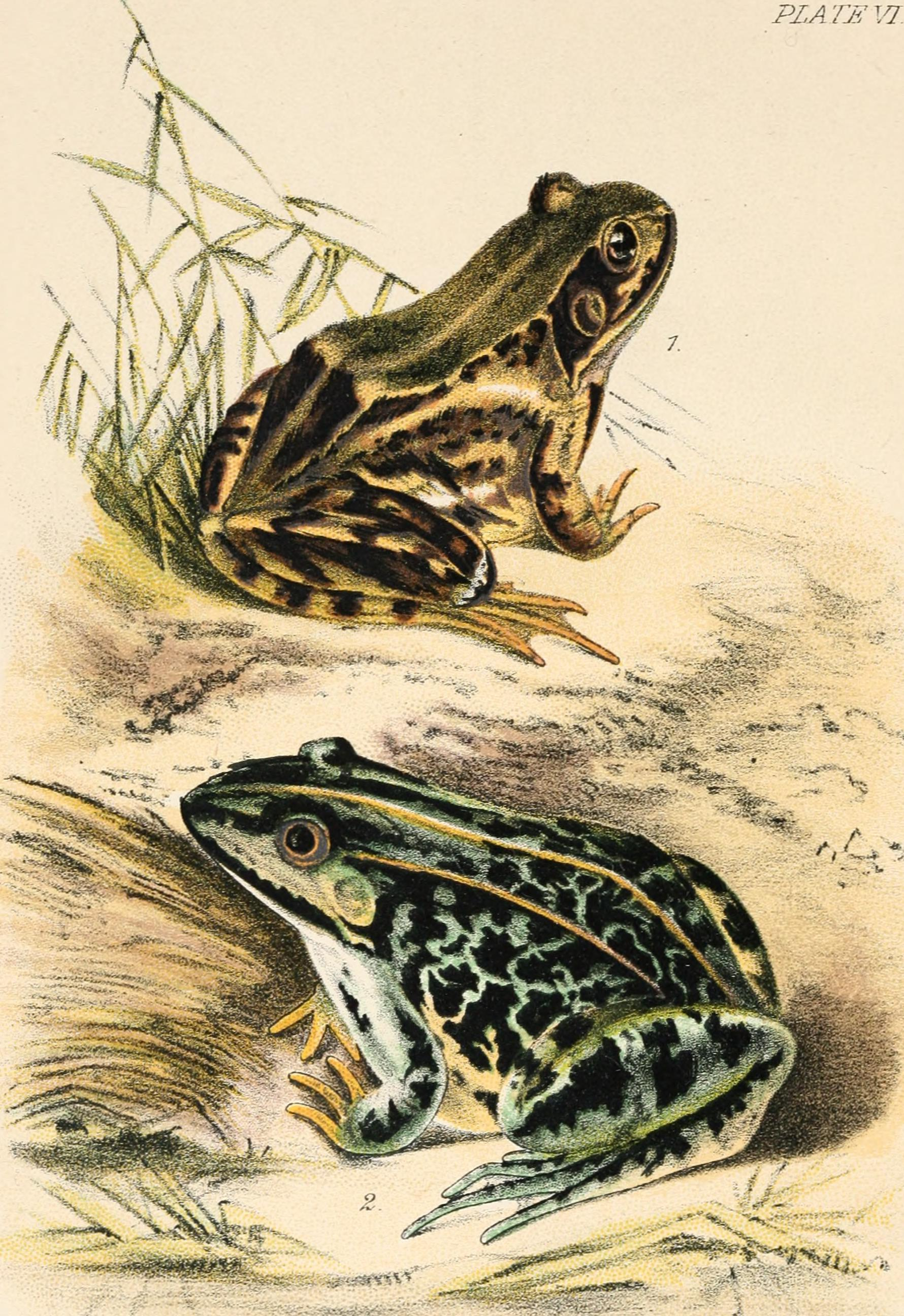 Title: Our reptiles and batrachians; a plain and easy account of the lizards, snakes, newts, toads, frogs and tortoises indigenous to Great Britain Year: 1893 (1890s) Authors: Cooke, M. C. (Mordecai Cubitt), b. 1825 Subjects: Reptiles -- Great Britain Amphibians -- Great Britain Publisher: London, W. H. Allen & co., limited Text Appearing Before Image: * Metamorphosis of Man and the Lower Animals. Trans-lated by Dr. Lawsen. London : Hardwicke. PIA TE VI Text Appearing After Image: 1 Common Frocj, 2 Edible- Frog. LITH. IN HOLLAND Bf EMR1K& BINGER.21? BERNERS ST LONDON. 91 THE COMMON FKOG. (Rana temporaria.)